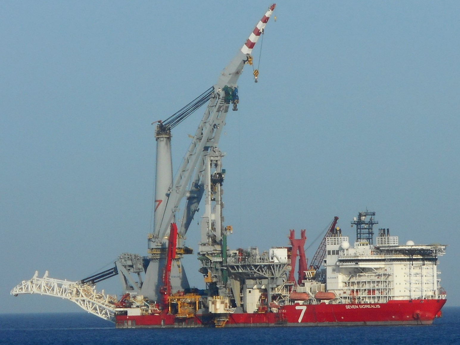 Seven Borealis (C6YG8, IMO:9452787) pipelay and heavy lift vessel at anchor off Limassol, Cyprus.